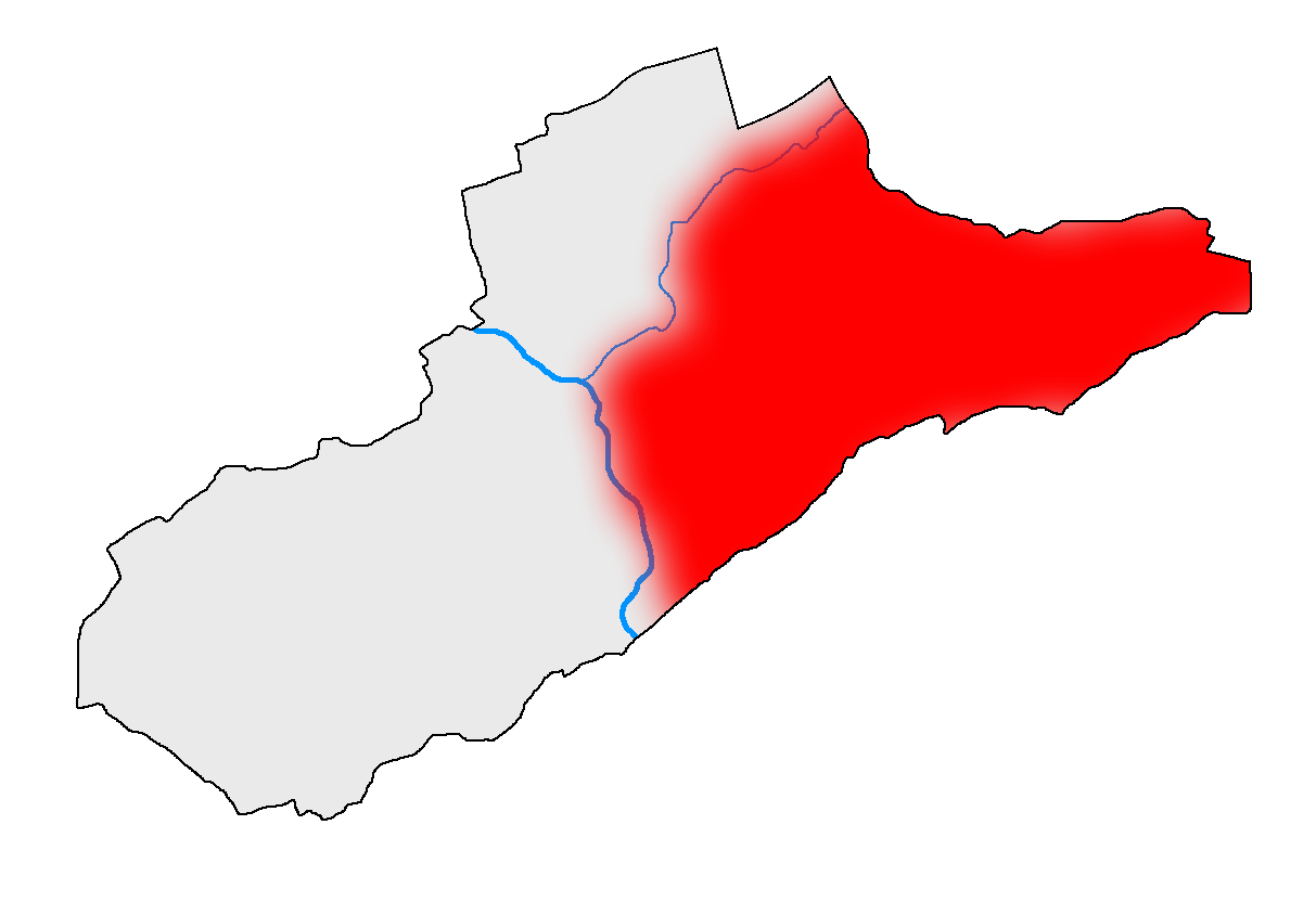 Położenie Borkówki na planie Brzozowa